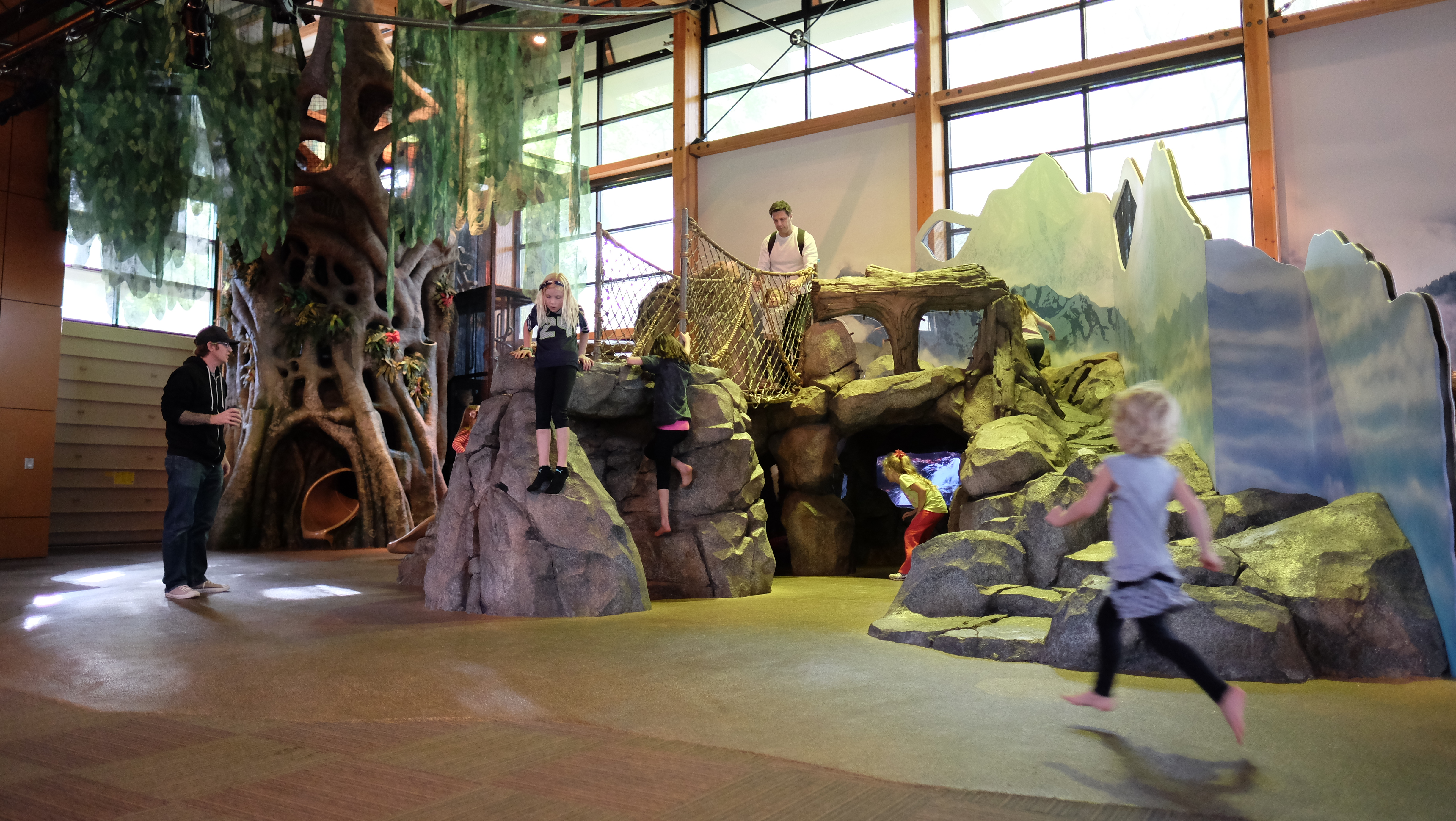 The Zoomazium at the Woodland Park Zoo in Seattle, Washington.